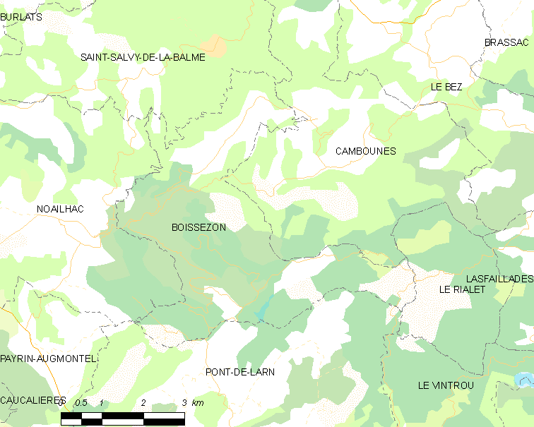 Map commune FR insee code 81034.png - Boissezon